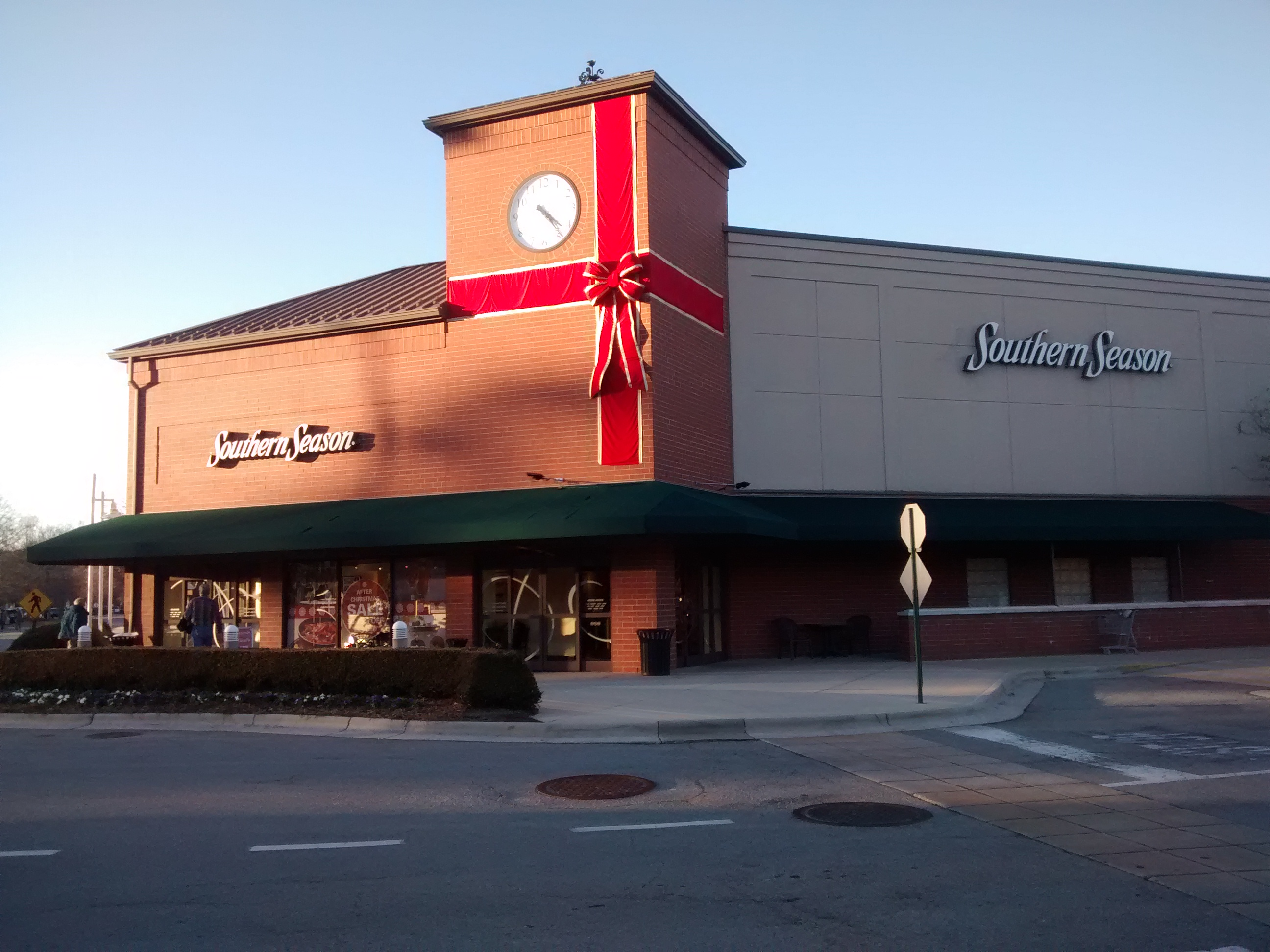 The exterior of Southern Season in Chapel Hill, North Carolina. The bow is a Christmas decoration.